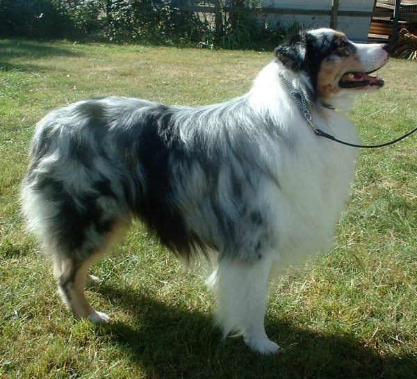 "Accra Frankly Speakin", a merle-coloured Australian Shepherd owned by Mr and Mrs Richards and Mr Harlow, at the City of Birmingham Championship Dog Show, 30th August 2003.